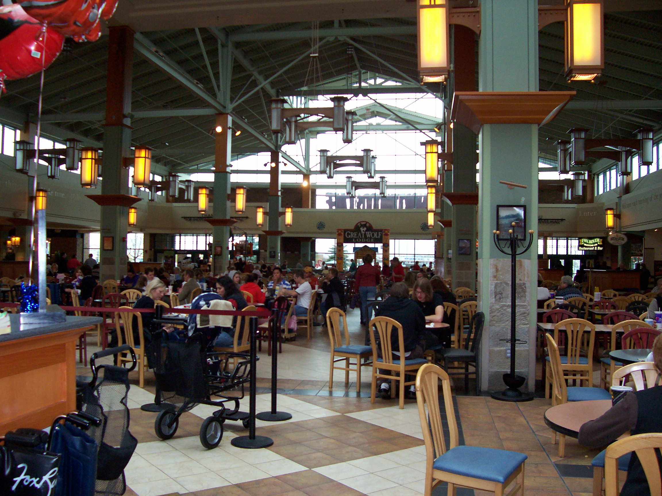 Fox River Mall Food Court in Appleton, Wisconsin, USA